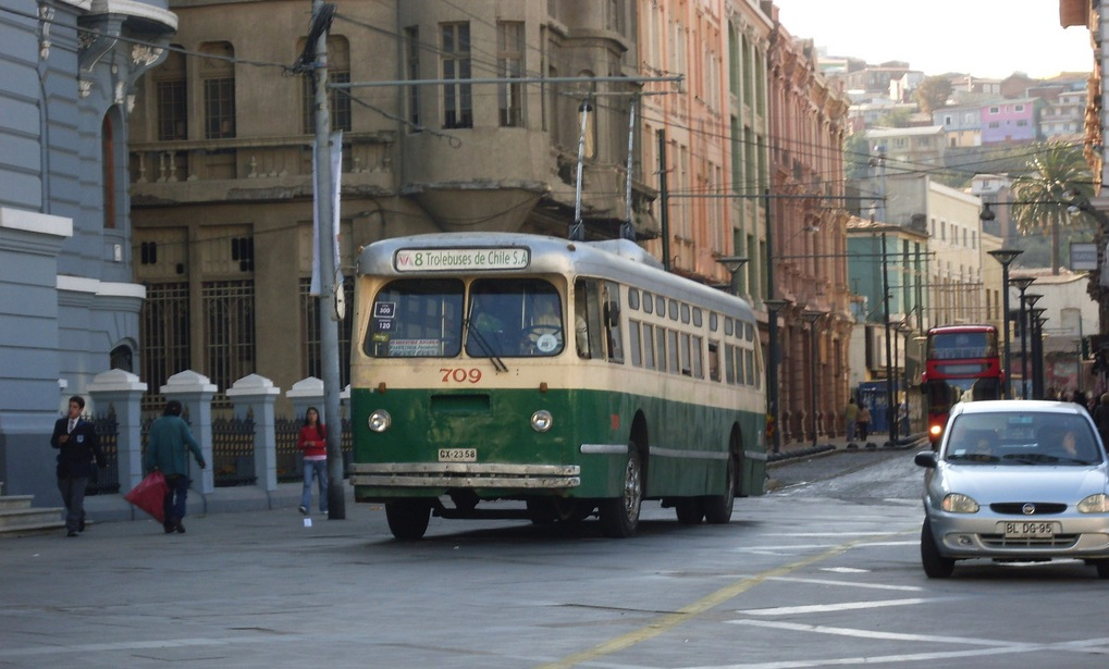 1952 Pullman-Standard trolleybus 709 entering Plaza Sotomayor from Calle Serrano in Valparaíso, Chile. The opening on the vehicle's front end is an air vent.